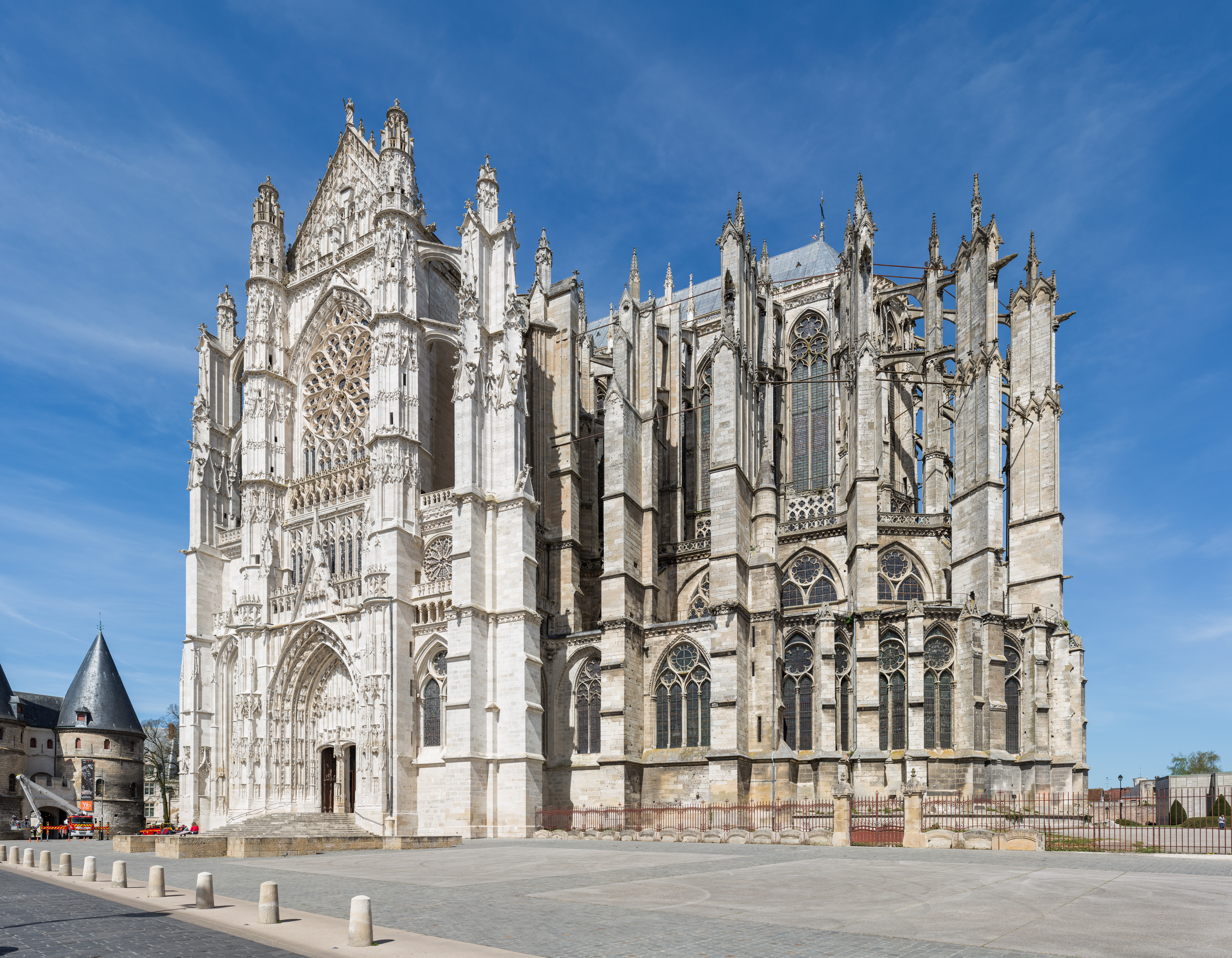 The exterior of Beauvais Cathedral in Picardy, France.